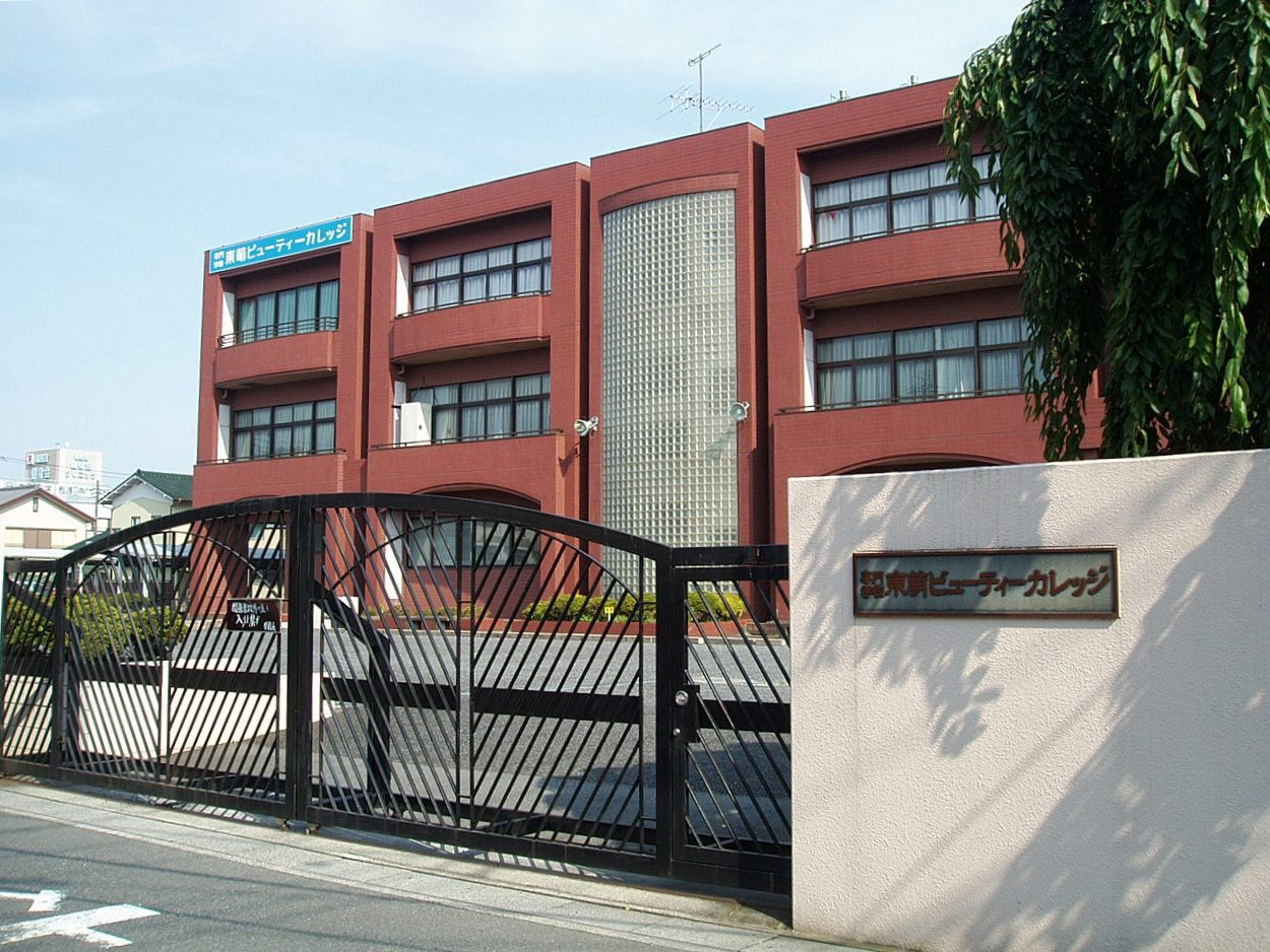 Entrance to Toho Beauty College located in Koshigaya, Saitama, Japan.